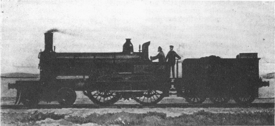 T. Wheatley's express engine, North British Railway, 1871. Member of the 224 Class.